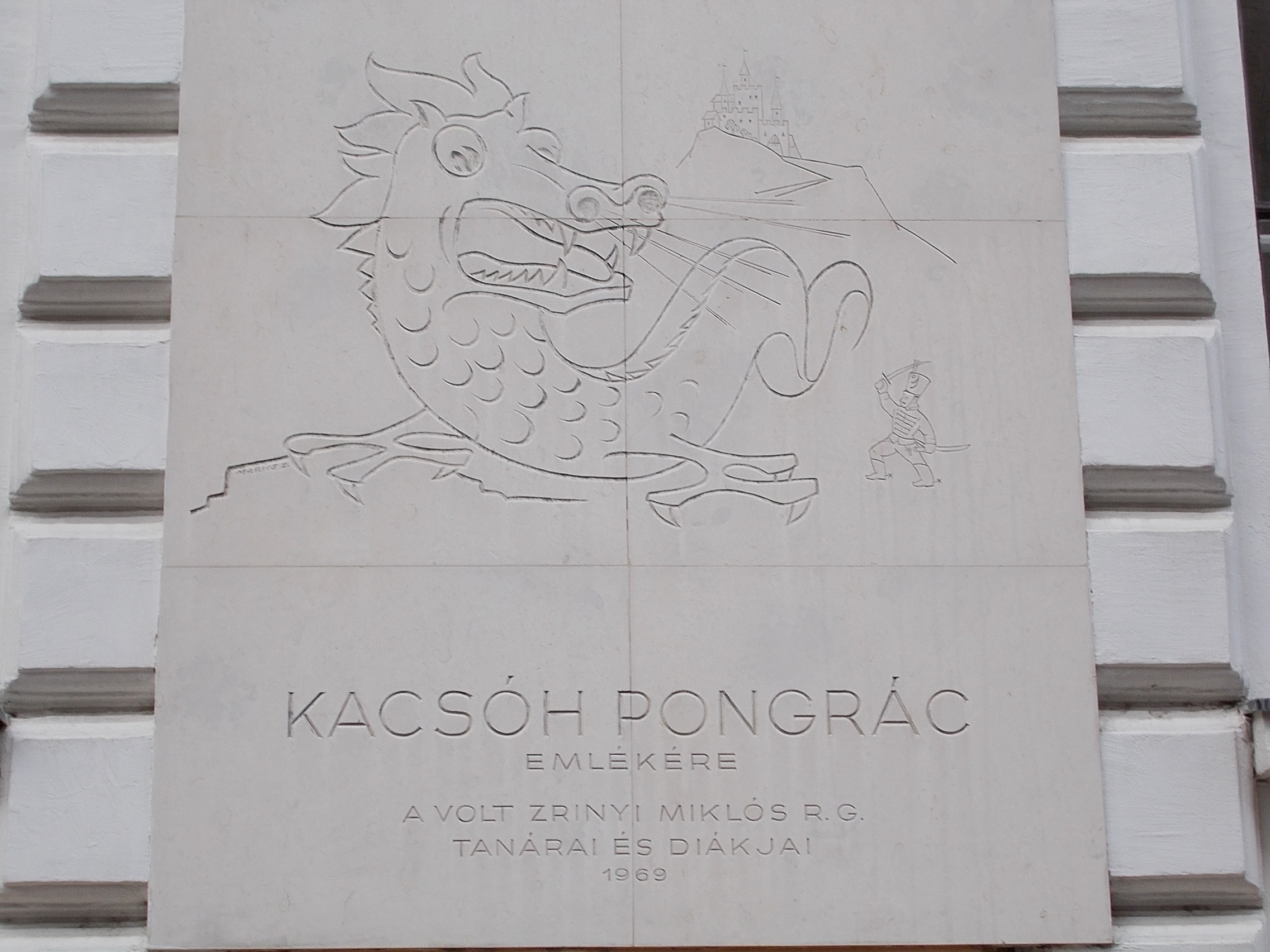 Óbuda University, Kandó Kálmán Faculty of Electrical Engineering. - 17 Tavaszmező Street, Csarnok neighbourhood, Budapest District VIII.